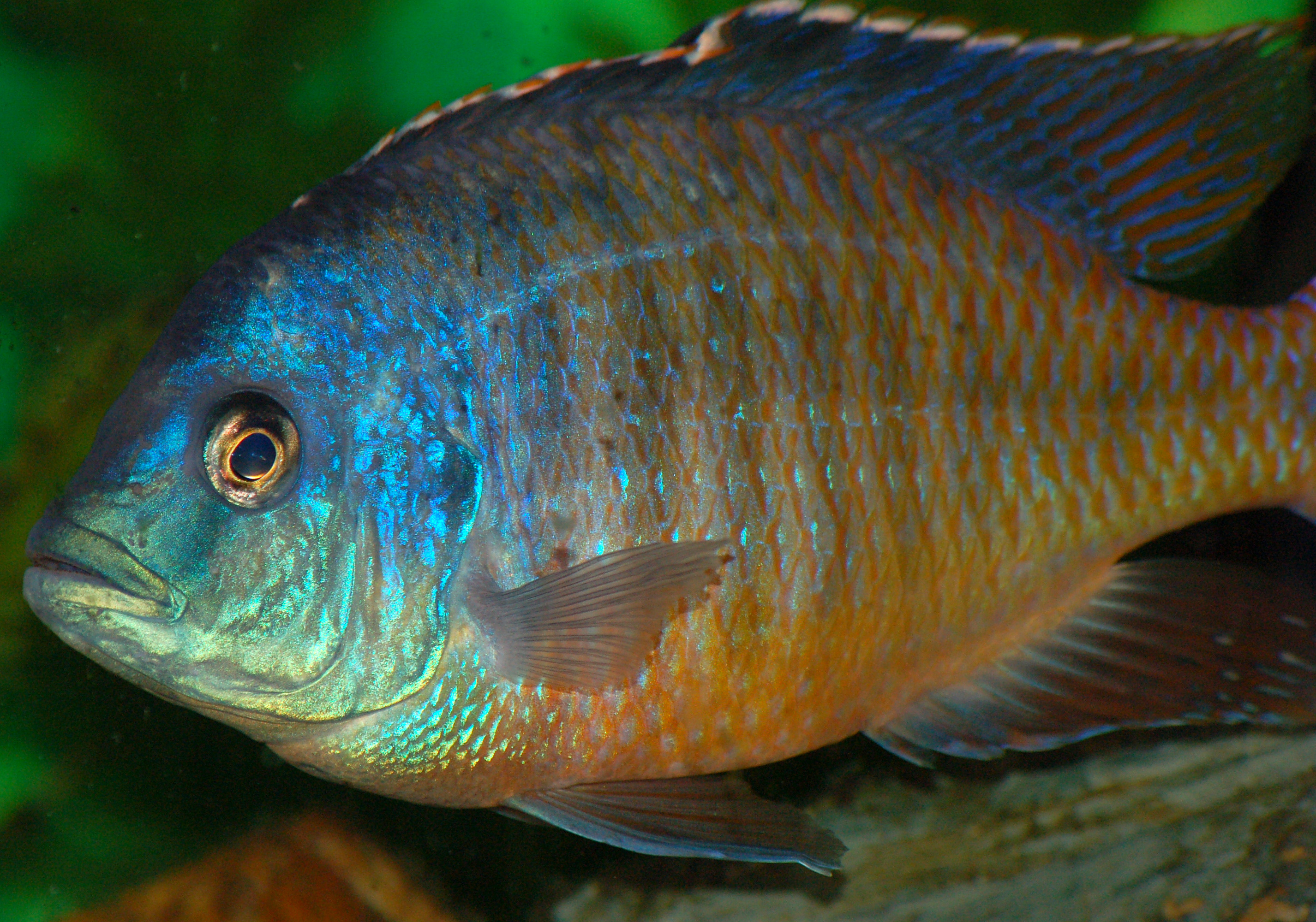 Photograph of the Red Empress (Protomelas taeniolatus) fish, illuminated by a camera flash.